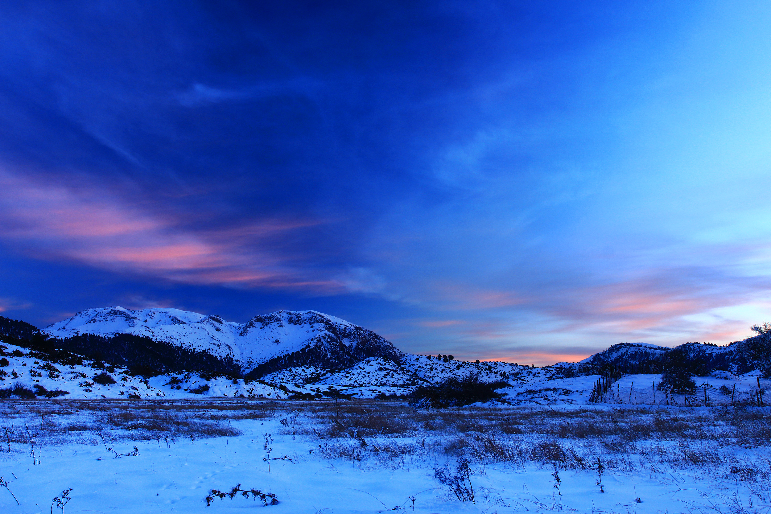 This is a photography of Natura 2000 protected area with ID GR2530001